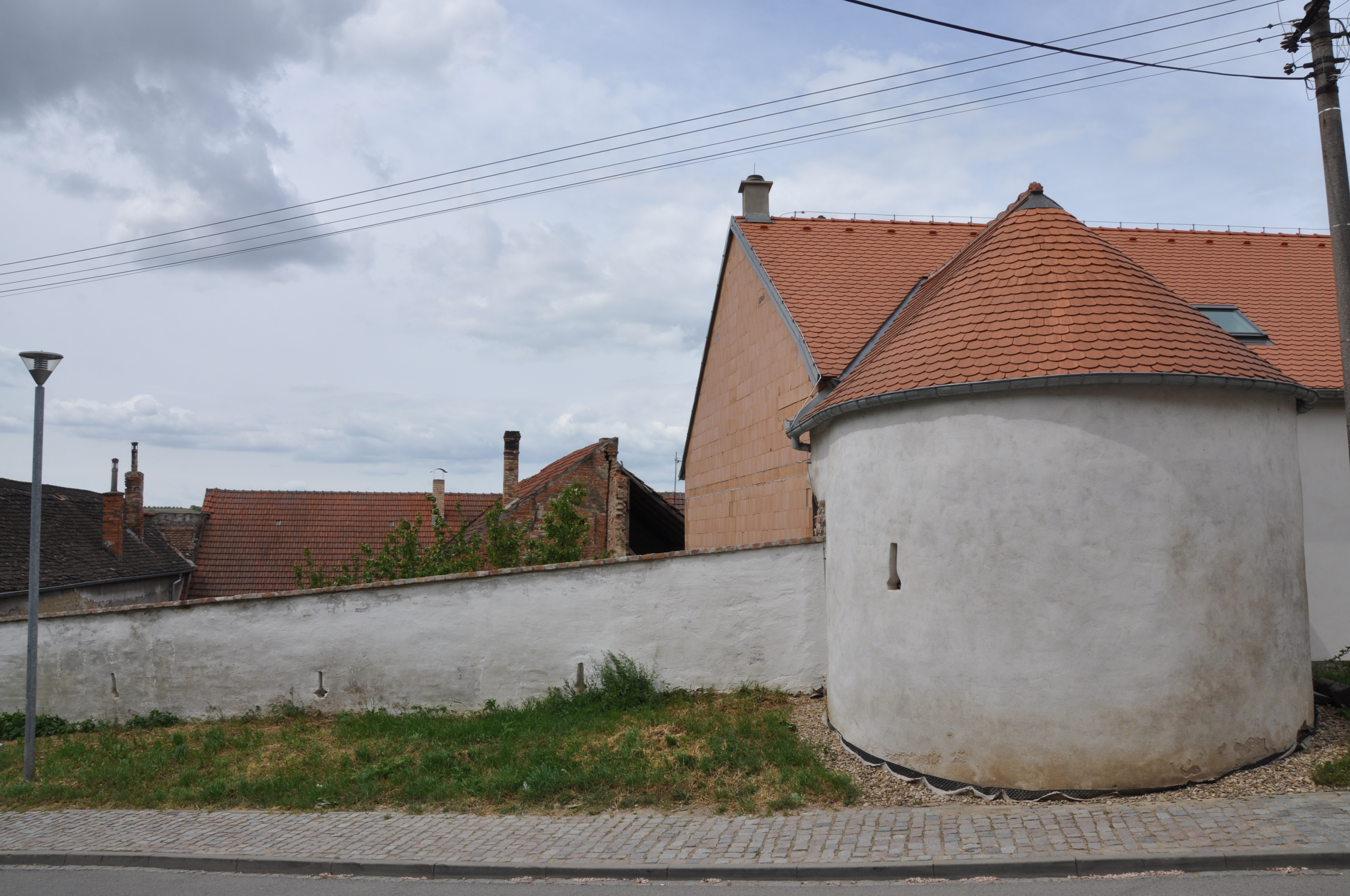 This image was acquired during the event Wikiměsto Hustopeče. Hustopeče, ulice Na Hradbách, bašta